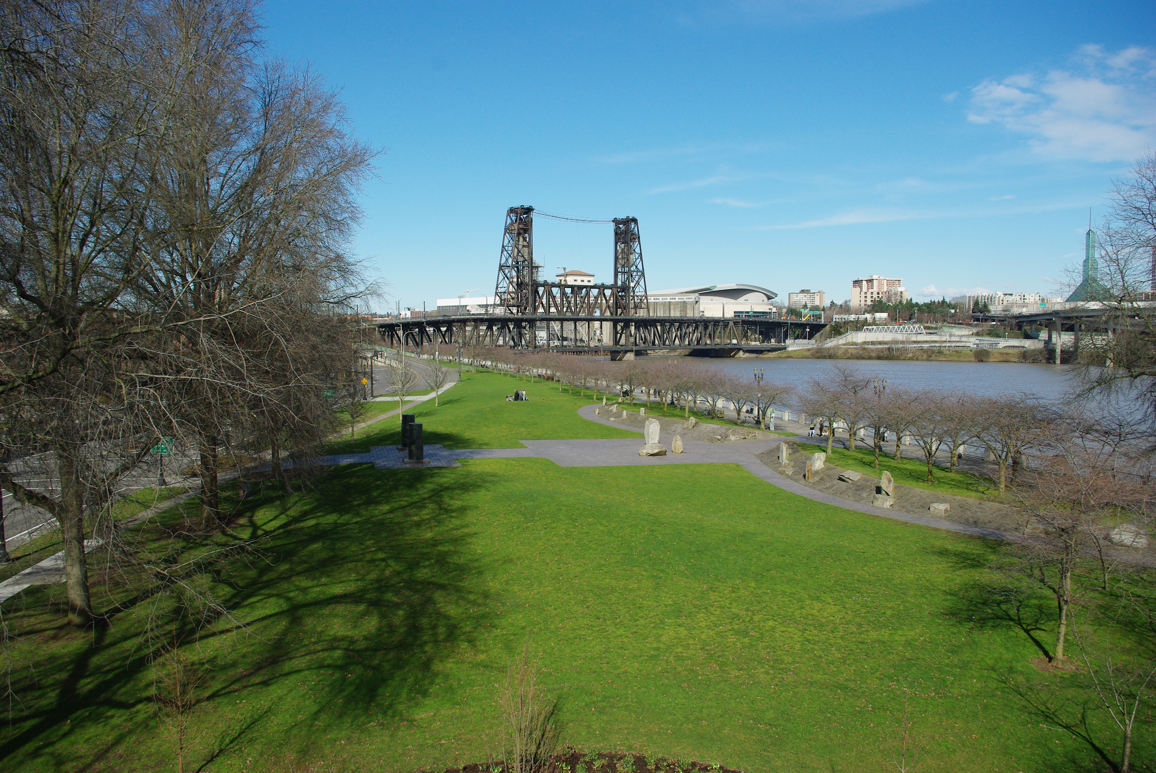 Japanese Memorial in Tom McCall Waterfront Park with the Steel Bridge in the background.